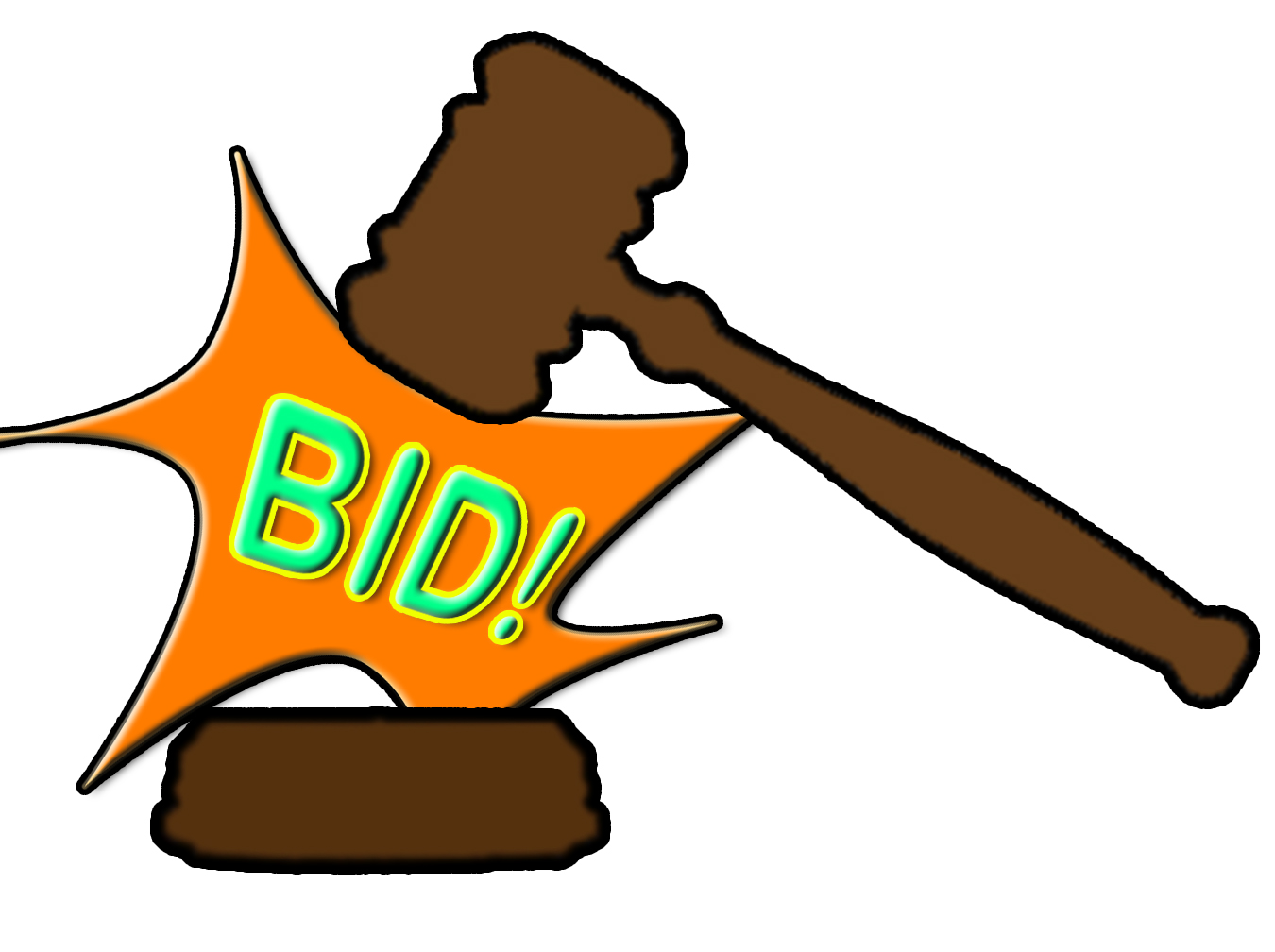 bid hammer, auction hammer